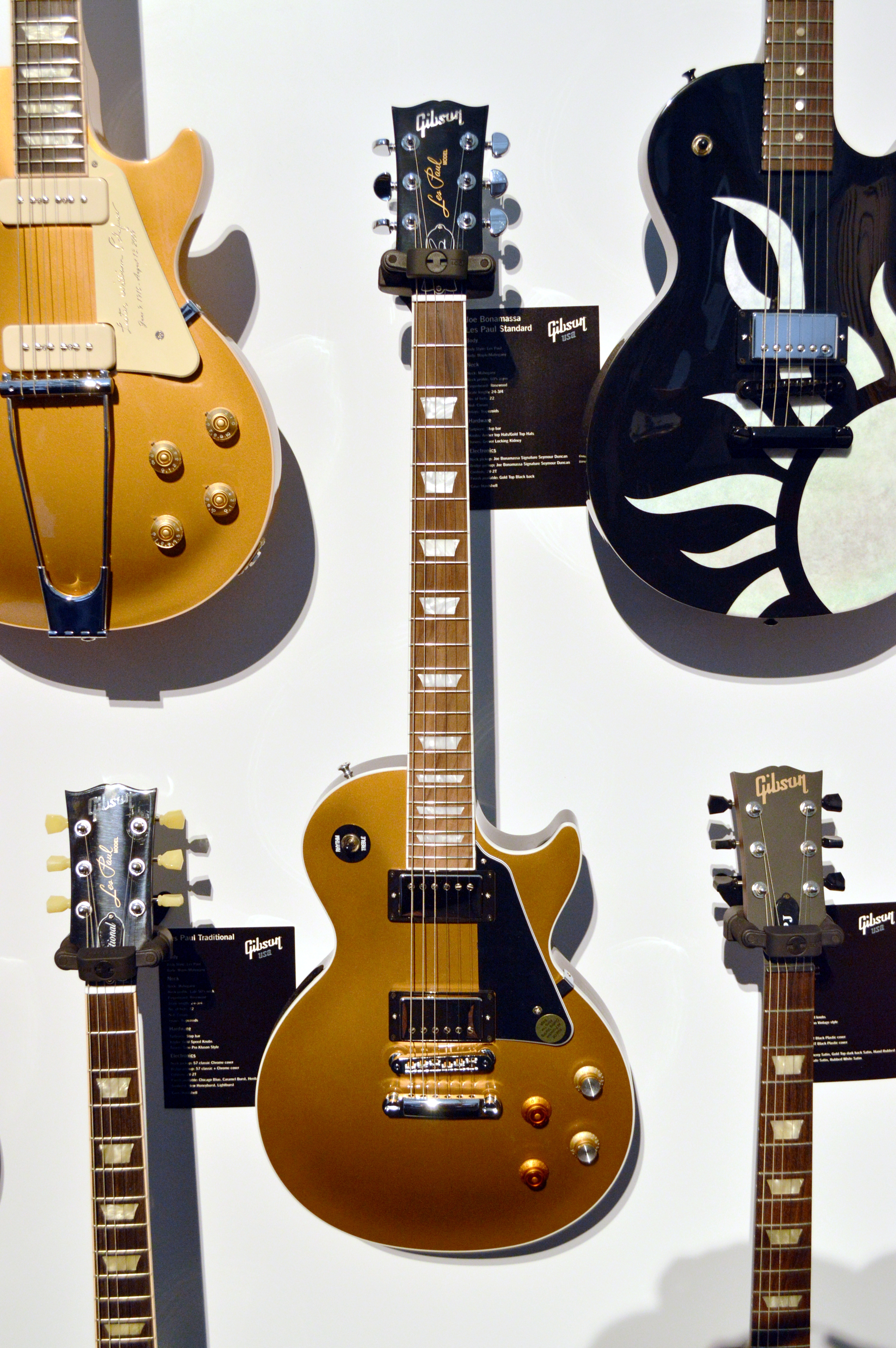 Gibson Joe Bonamassa Les Paul Standard, CES2013